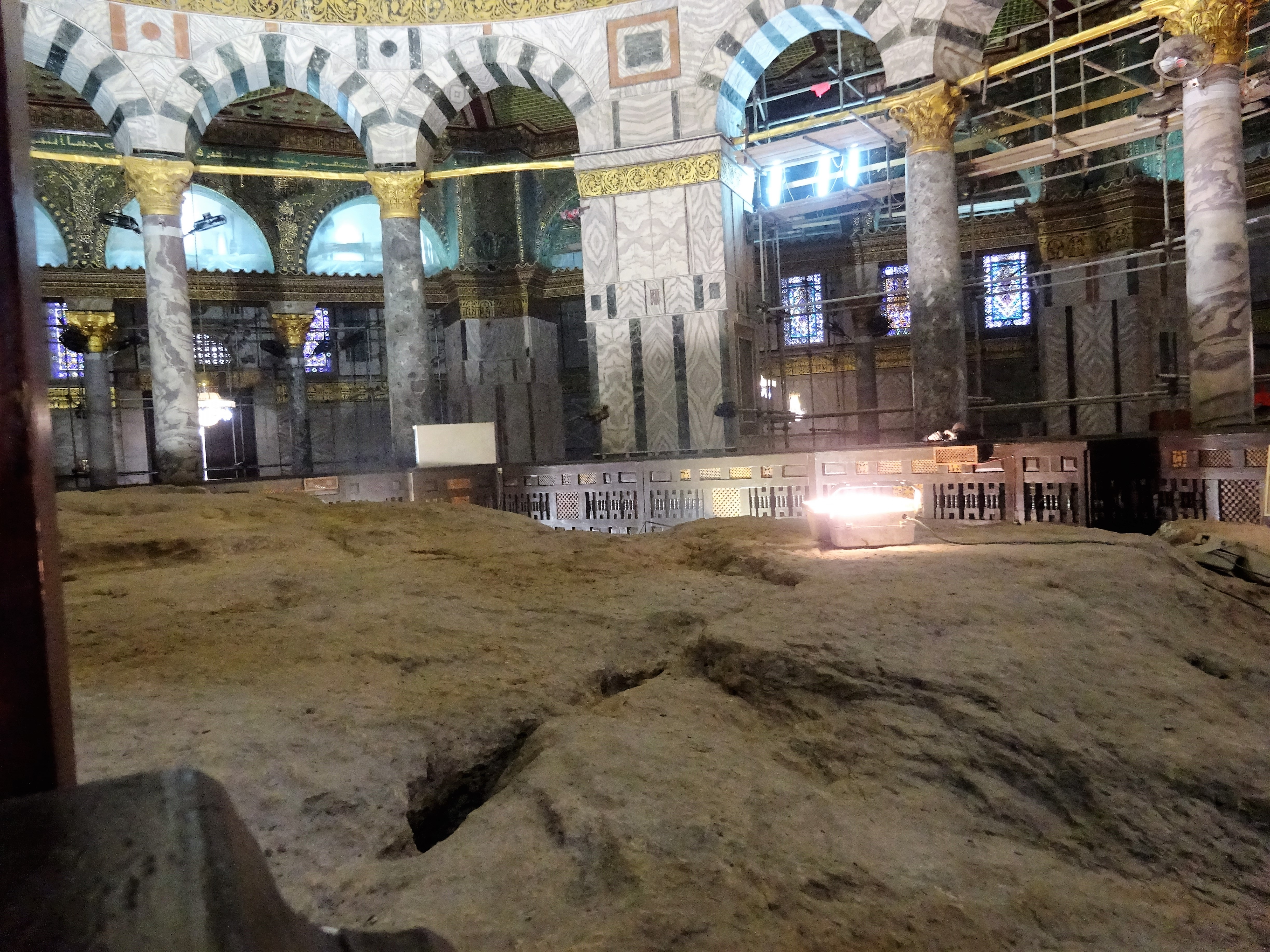 Foundation stone in Dome of Rock (January 2018)